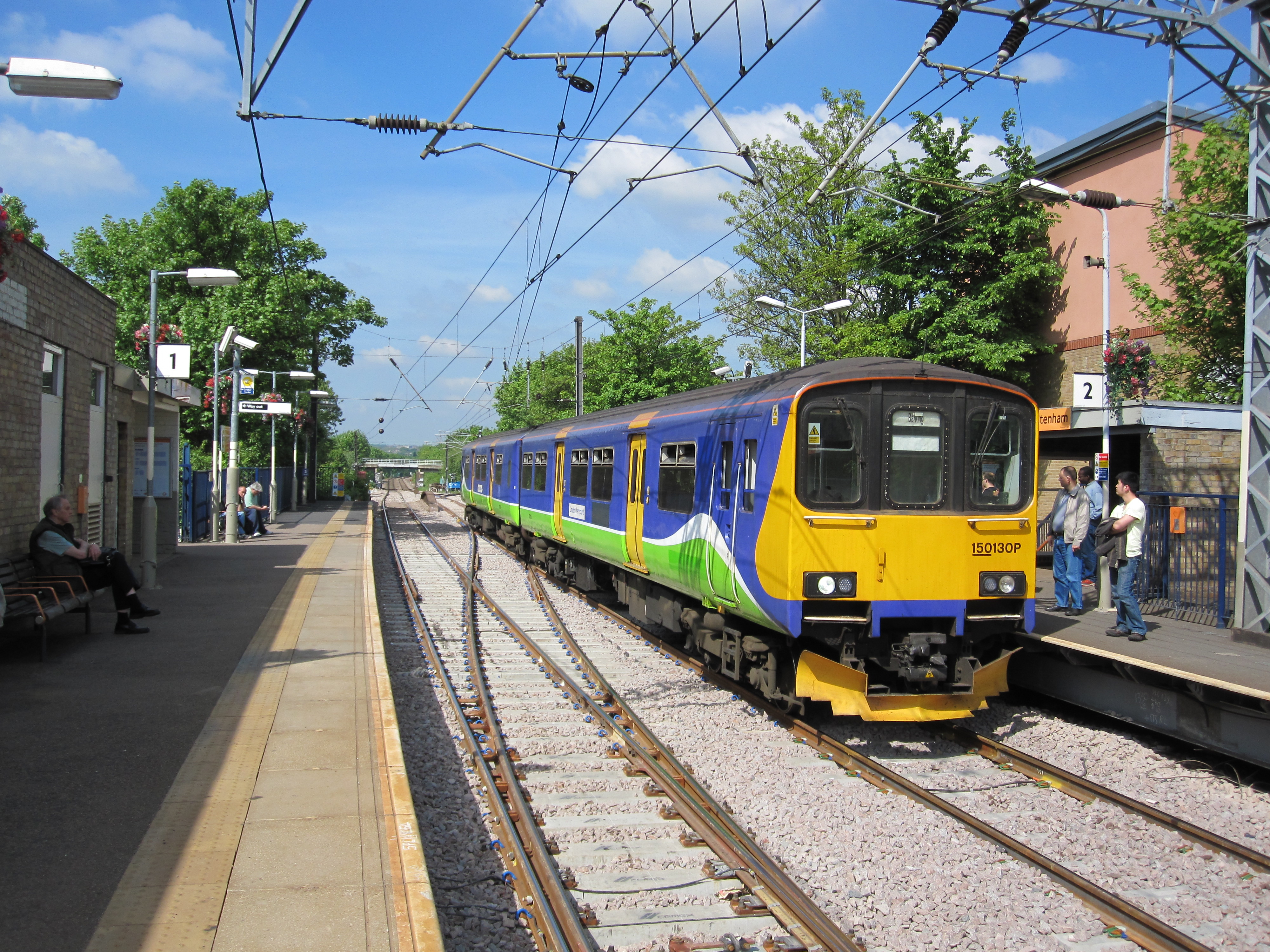 The class 150s on the Gospel Oak to Barking were never going to hang around for long once London Overground (part of TfL) acquired the franchise from Silverlink. As such the units bore their former Silverlink colour scheme with basic stickers on the side and never got repainted. Back in 2010 prior to the delivery of class 172s, 150.130 is seen at South Tottenham on Gospel Oak to Barking service.